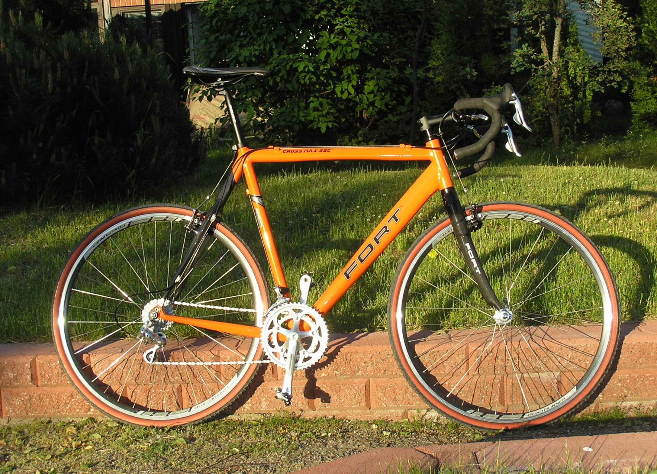 Fort cyclocross bicycle.